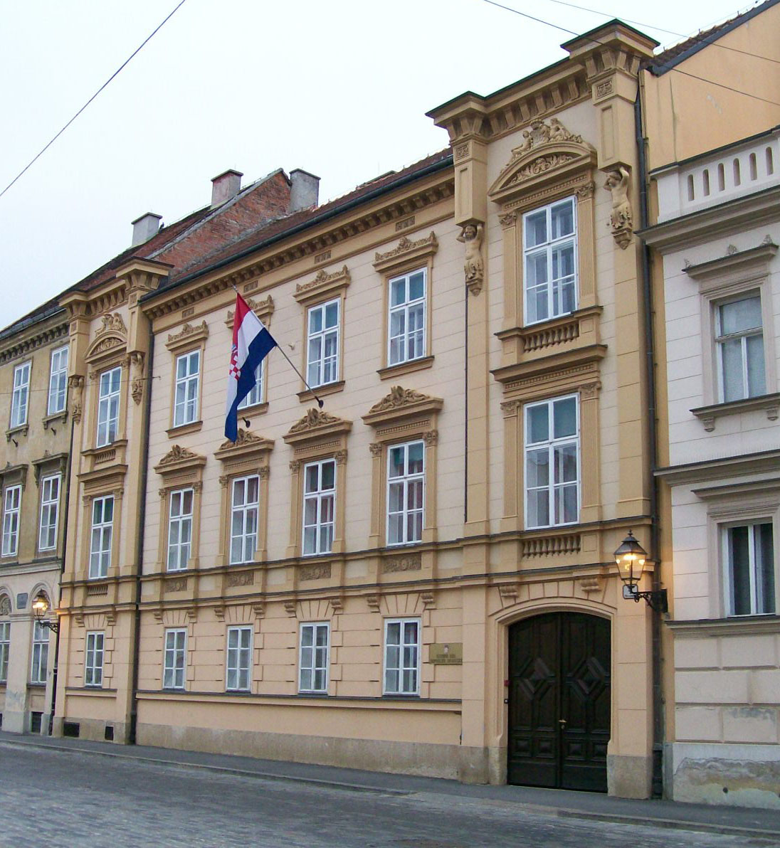 Building of the Constitutional Court of the Republic of Croatia